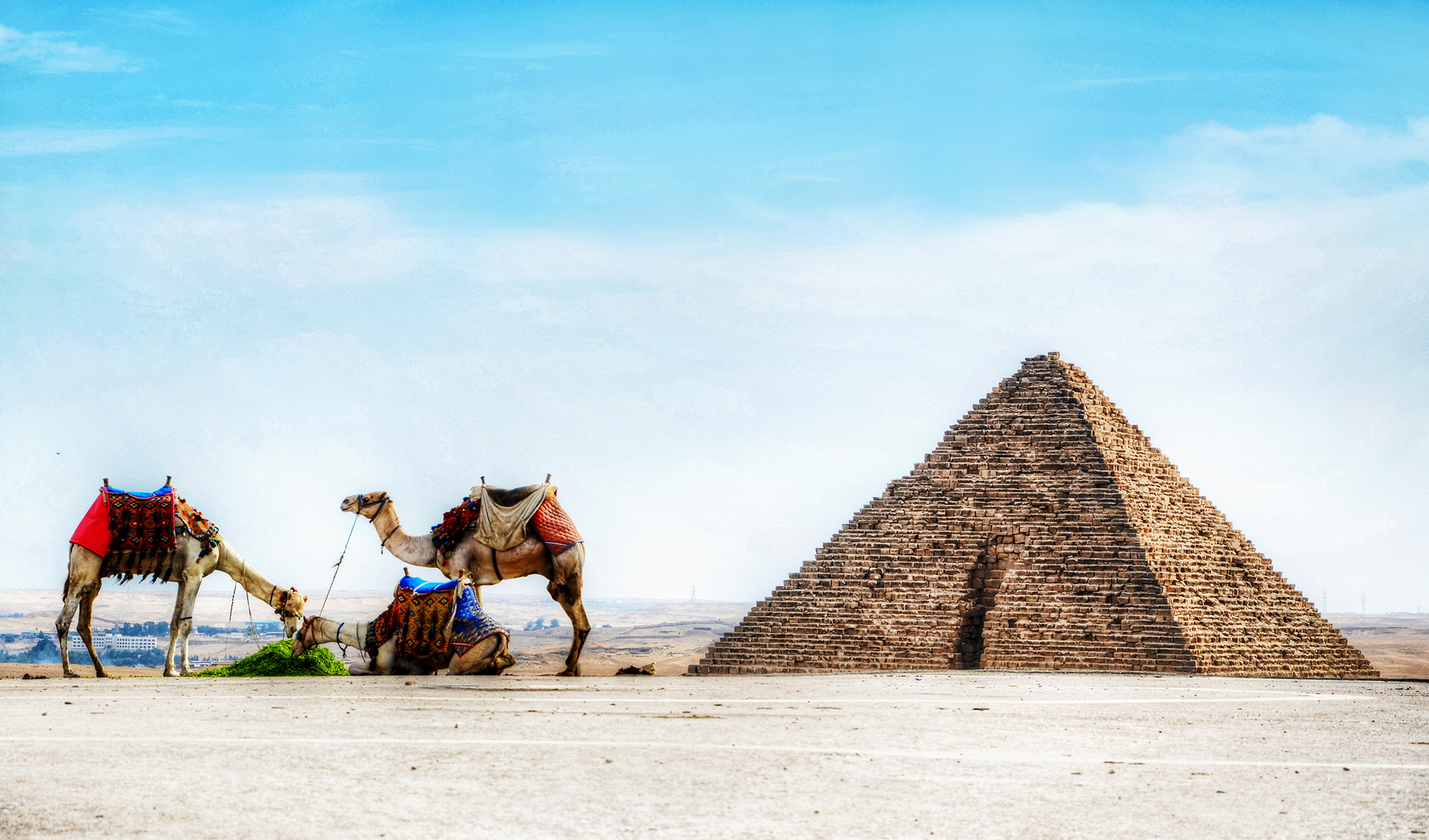 Giza Necropolis